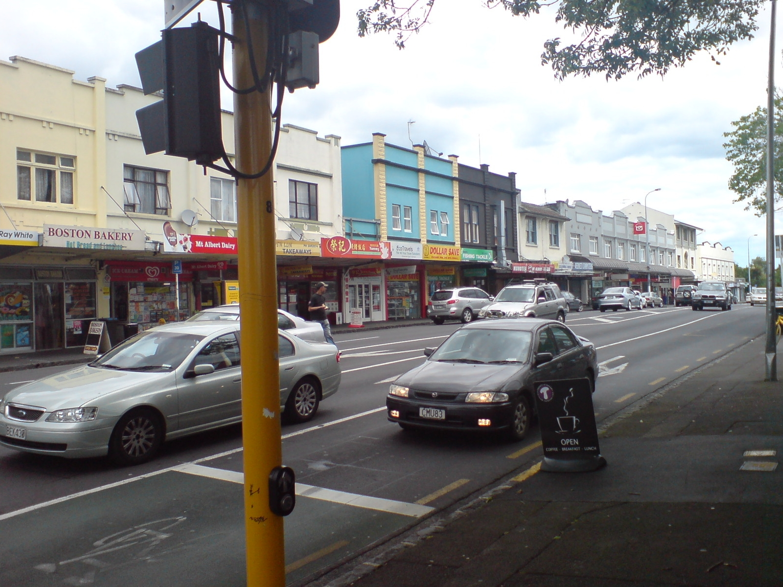 The Mt Albert Town Centre in Auckland, New Zealand. Like too many in Auckland it is a bit run-down, and worse, it is totally dominated by cars & their needs.